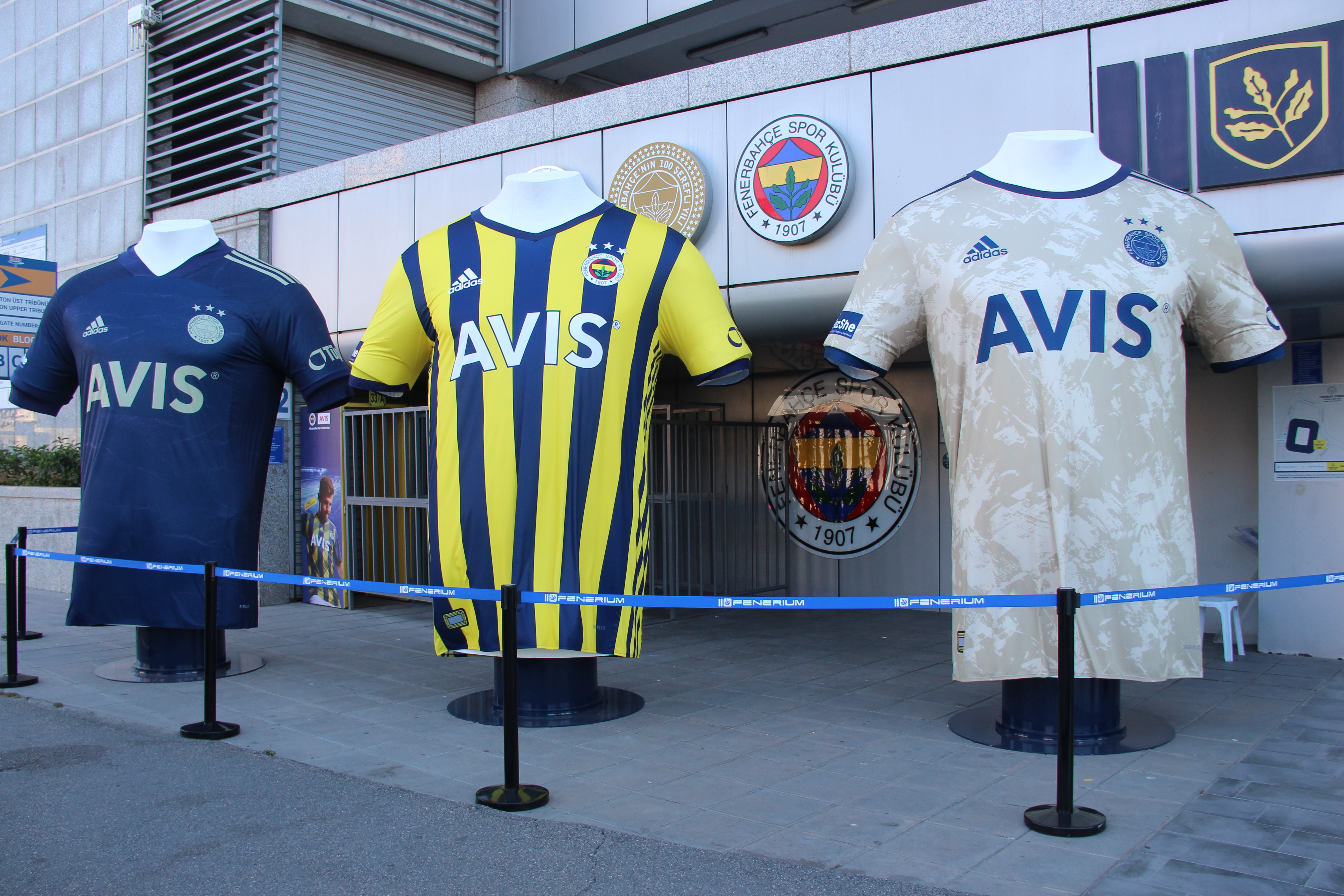 2020–21 Fenerbahçe S.K. season jerseys